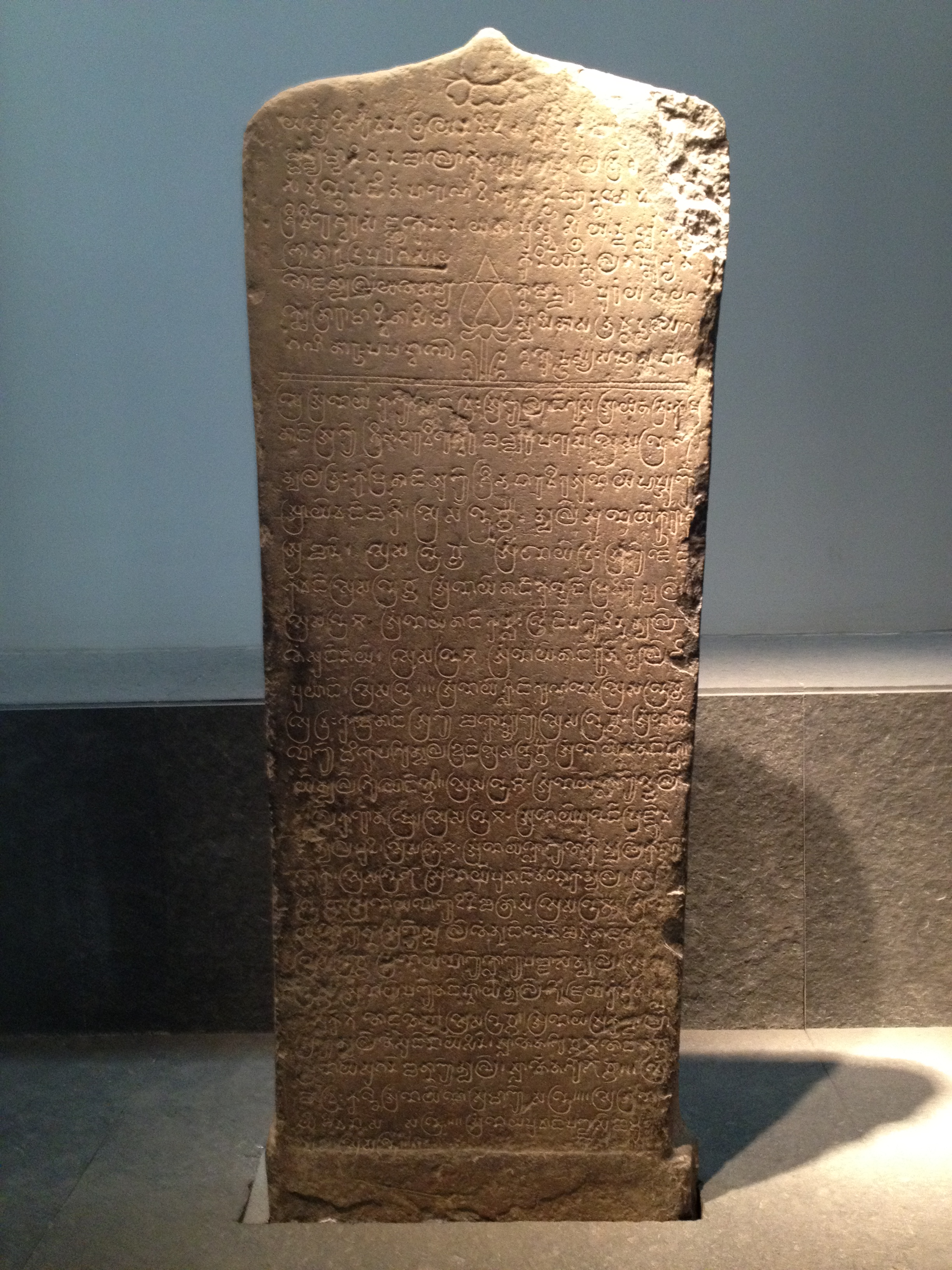 Stone stela erected by Udayadityavarman II (ruled 1050-1060), King of Angkor, to mark tax-exempted regions in the Mekong Delta. My Qui, Long An province. Ho Chi Minh City Museum of History.